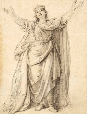 France Thanking Heaven for the Recovery of Louis XV, 1744. Black and white chalks with brush and gray wash and touches of red chalk by Charles-Antoine Coypel